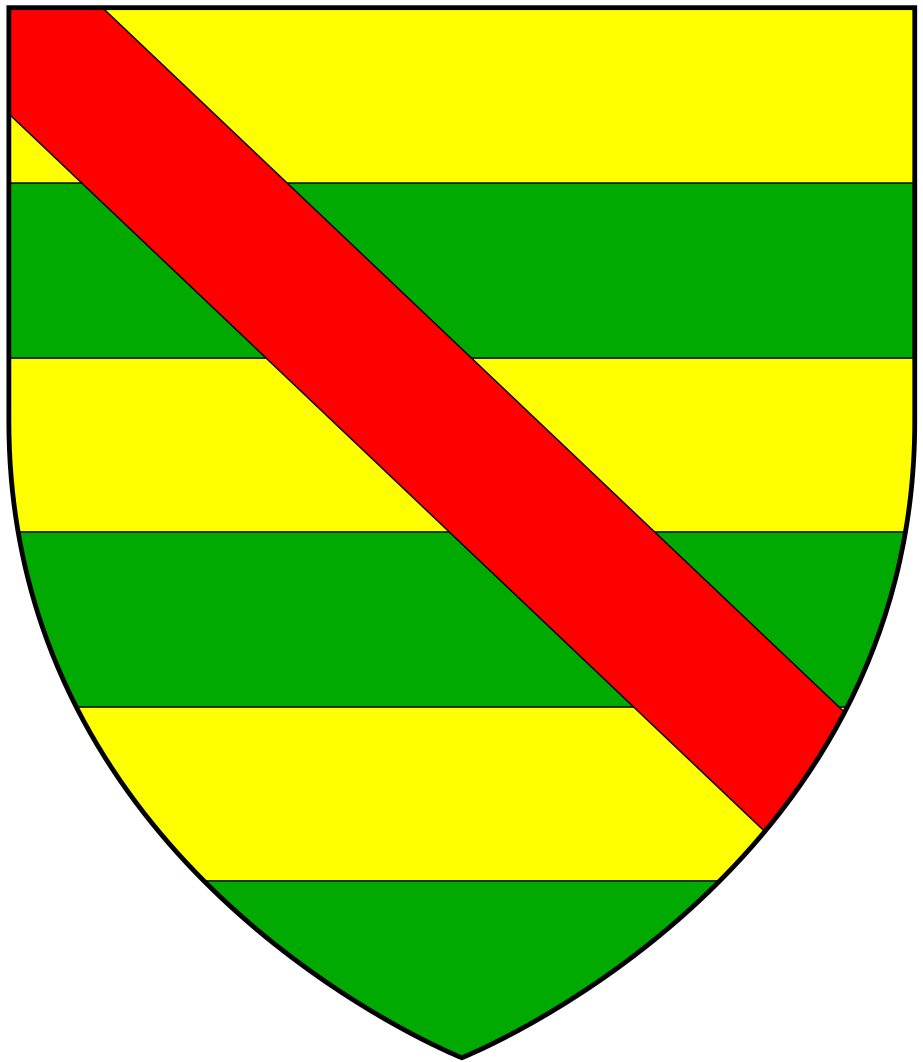 Arms of Poynings: Barry of six or and vert a bend gules. Quartered by Percy. Text per: 'Parishes: Poynings', in A History of the County of Sussex: Volume 7, the Rape of Lewes, ed. L F Salzman (London, 1940), pp. 208-212[1] "The manor of Poynings in Sussex passed to Eleanor de Poynings (d.1484), daughter and heiress of Richard de Poynings, and wife of Henry Percy, 3rd Earl of Northumberland (1421-1461). Subsequently the lordship of Poynings became merged in the Earldom of Northumberland. His son Henry Percy, Earl of Northumberland (d.1489) bequeathed the manor and lordship of Poynings to his youngest son Josceline Percy "to the intent that the said Gosslyne shall be of loving and lowly disposition towards the said Henry his [eldest] brother and give him his allegiance". In 1514, however, the manor was conveyed by Henry Percy, 5th Earl of Northumberland (1478-1527)and his wife Katherine Spencer to trustees, and in 1523 the same earl leased it to George Gyfford for 21 years". (Source: )